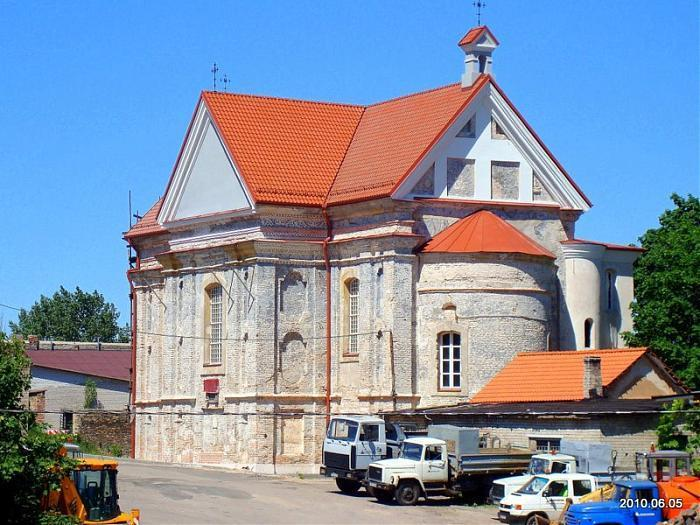 Church of St. Stephen in Vilnius, Lithuania. The picture was taken in 2010 when its reconstruction was only partly completed.